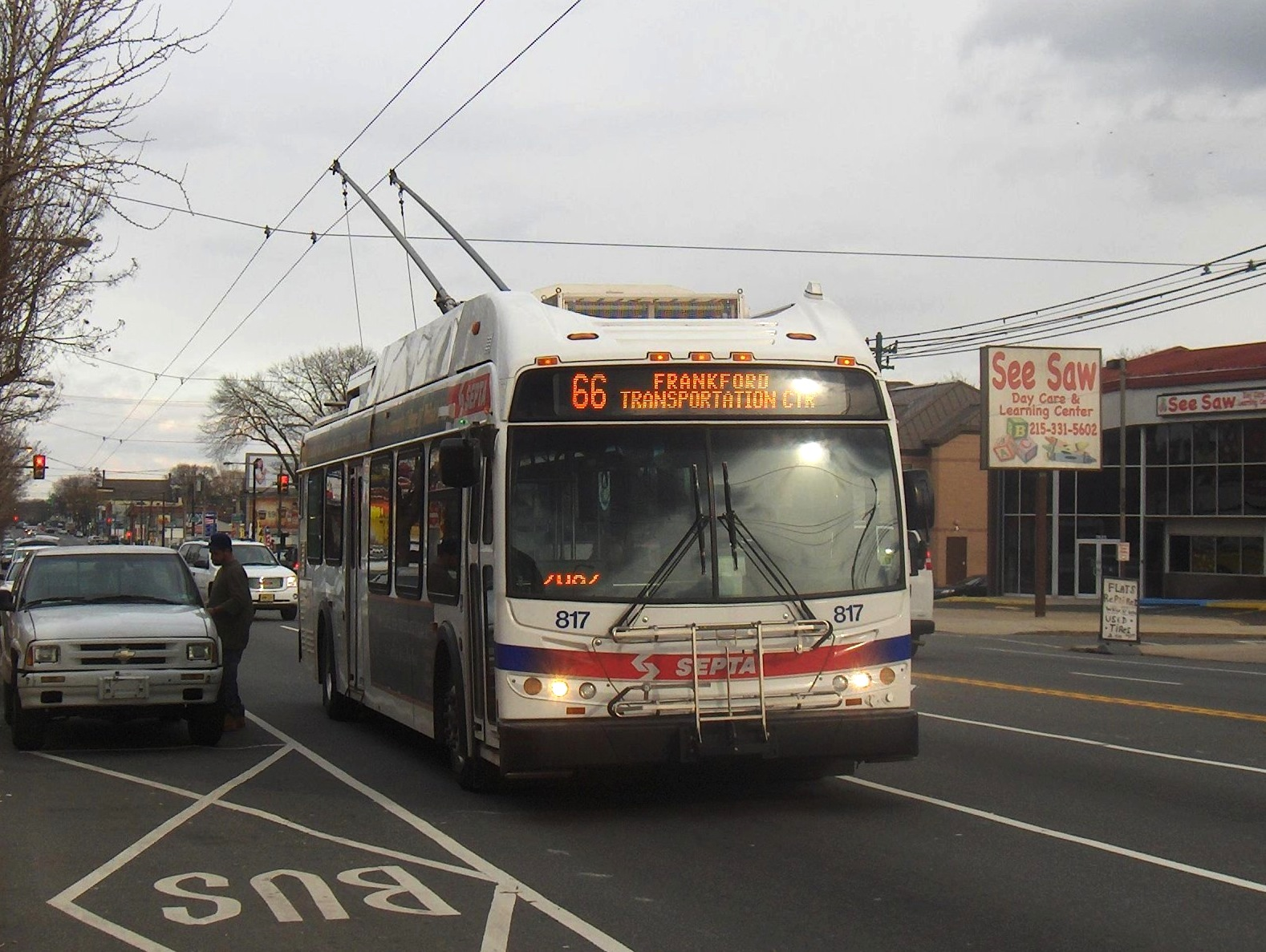 A 2008 New Flyer E40LFR trolleybus of SEPTA, in Philadelphia. No. 817 is pictured in the 7300 block of Frankford Avenue, on route 66, headed south to Frankford Terminal.